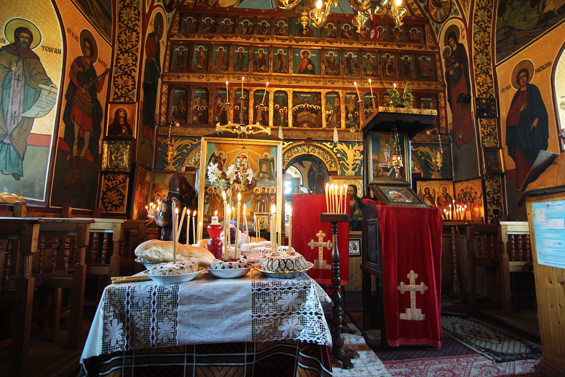 Romanian coliva used as part of a religious ceremony at a Christian Orthodox church